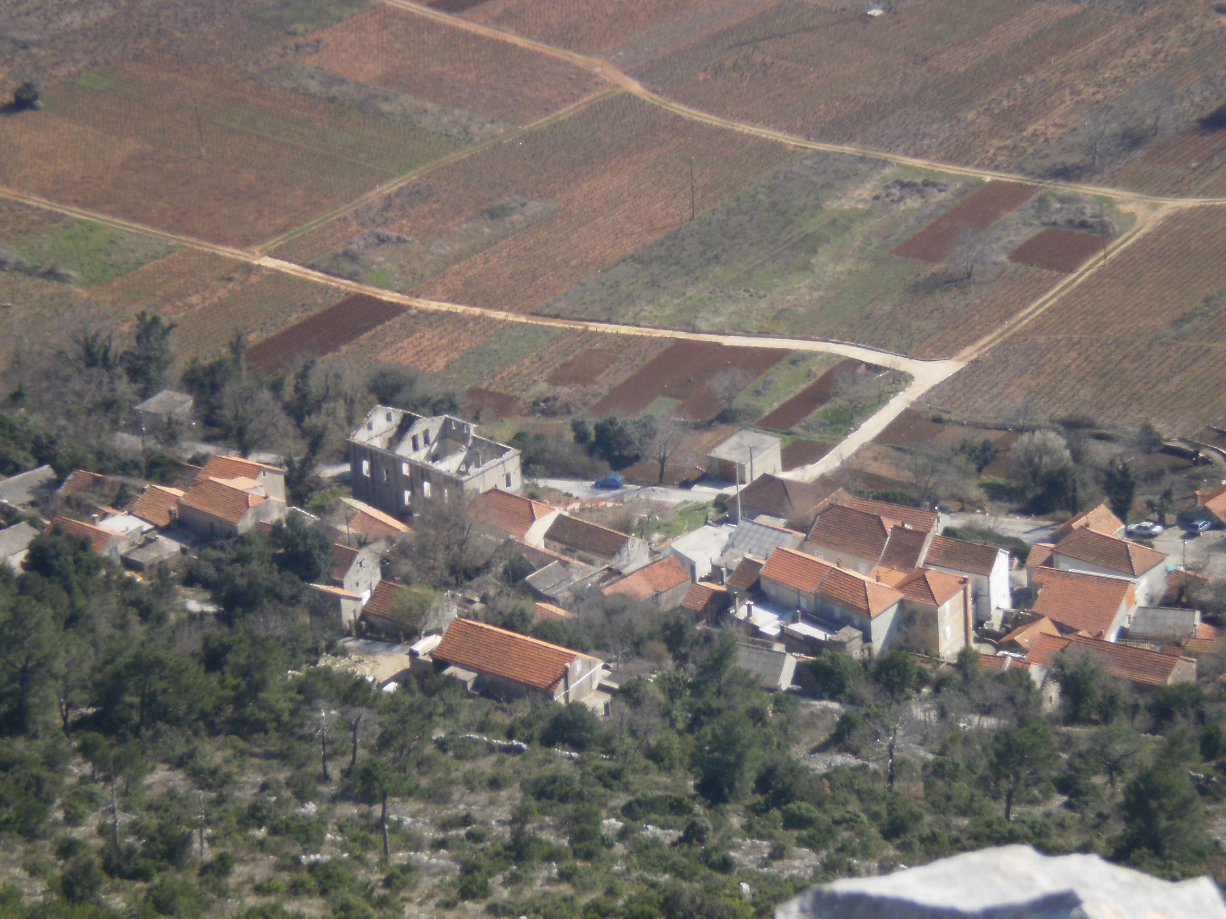 Panorama photo of Oskorušno OLYMPUS DIGITAL CAMERA